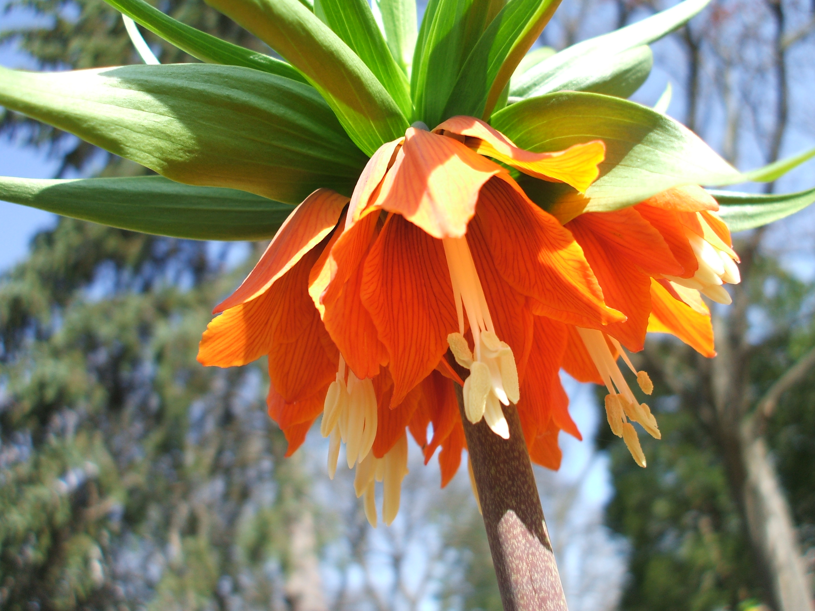 Fritillaria imperialis 'Rubra Maxima' This is: Fritillaria imperialis - The "Crown Imperial" Frits: Fritillaria imperialis 'Rubra Maxima'